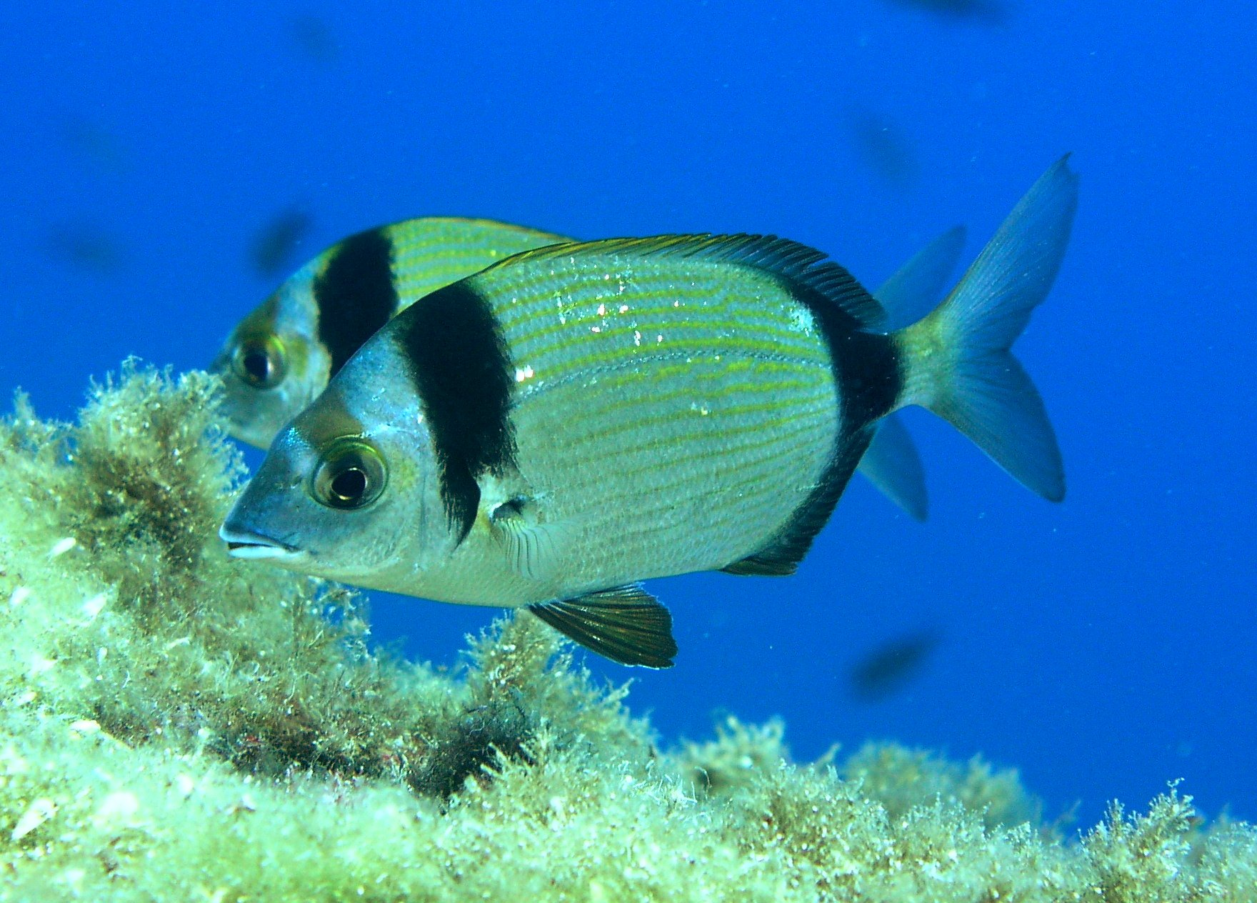 Diplodus vulgaris in Italy